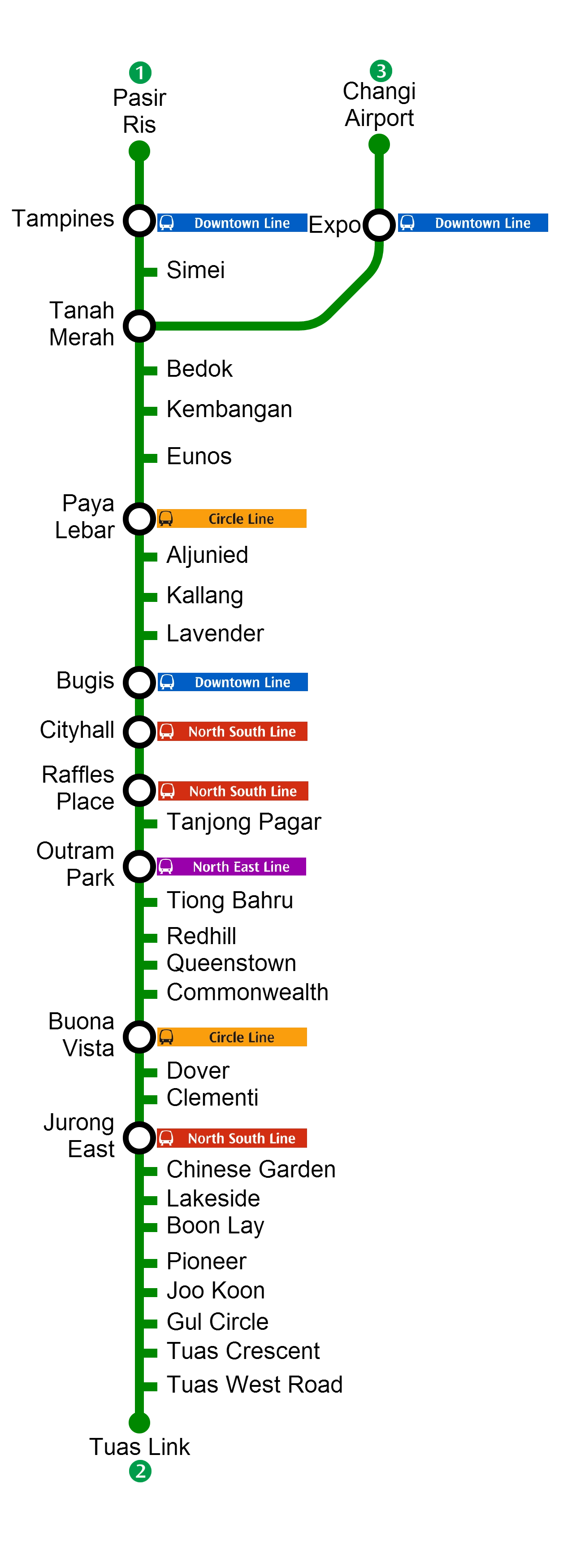 East West Line